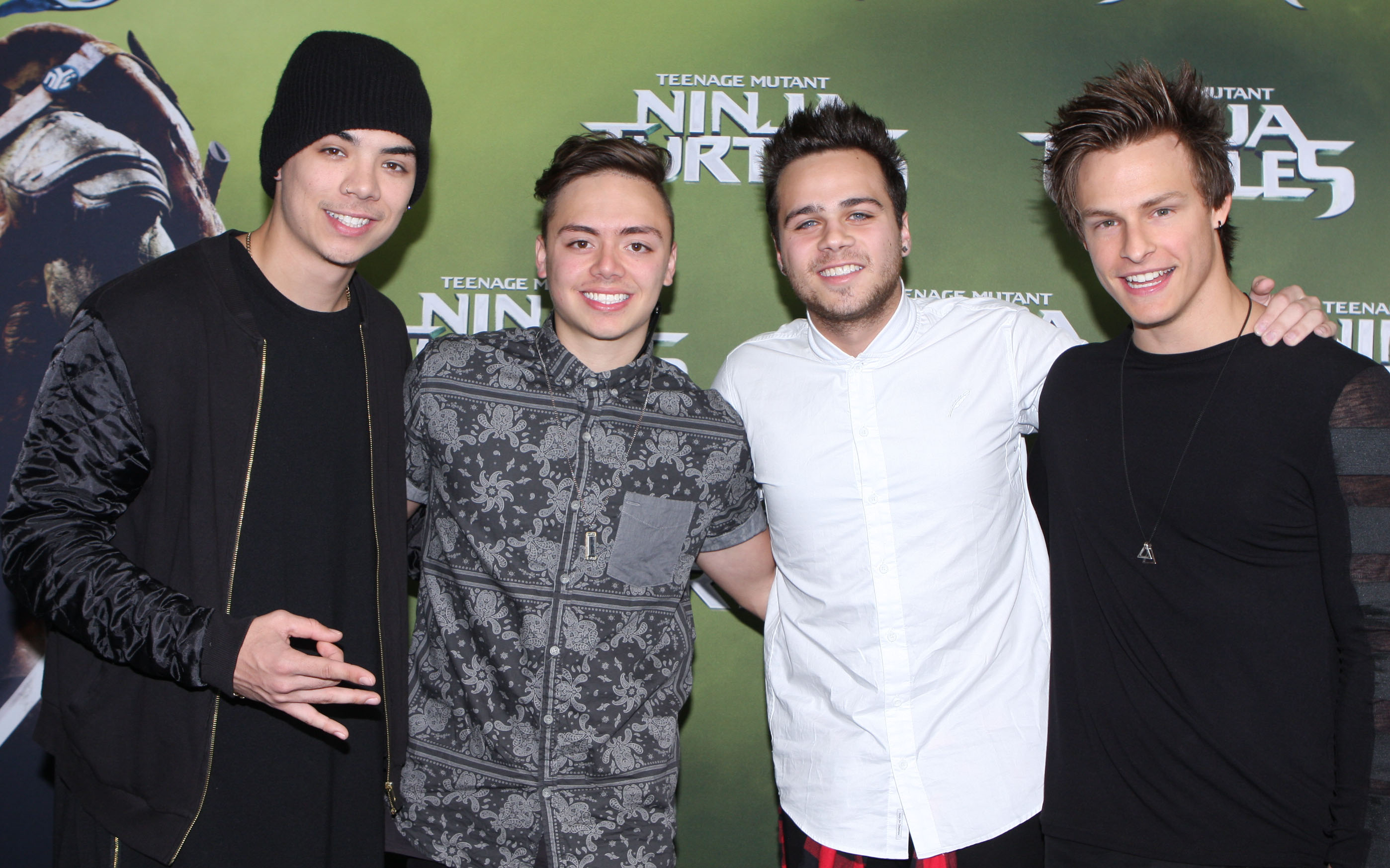 Teenage Mutant Ninja Turtles Special Event Screening - Megan Fox, Will Arnett